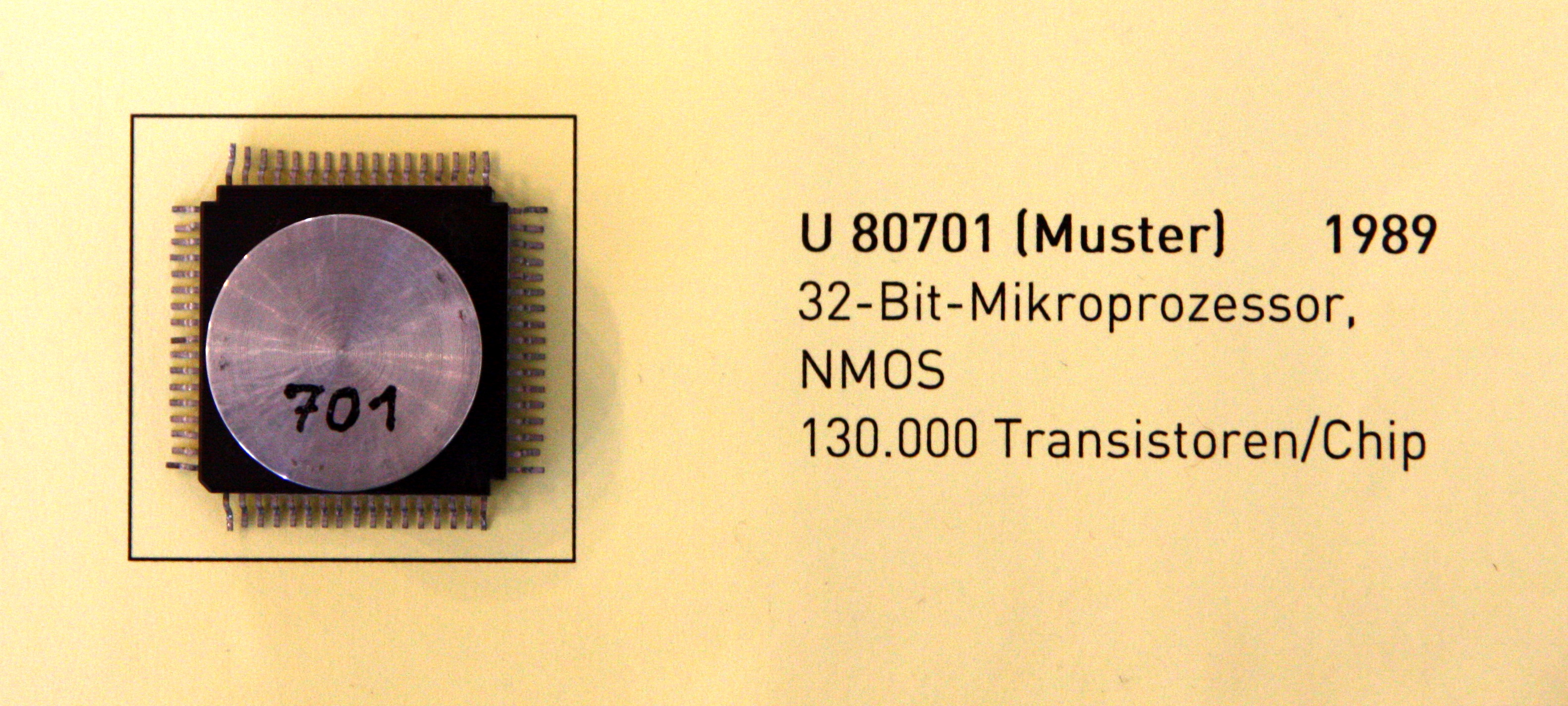 Microprocessor MME U80701FC - DEC 78032 Clone from East Germany (G.D.R) ca 1989, rec. in Technical Collections Dresden